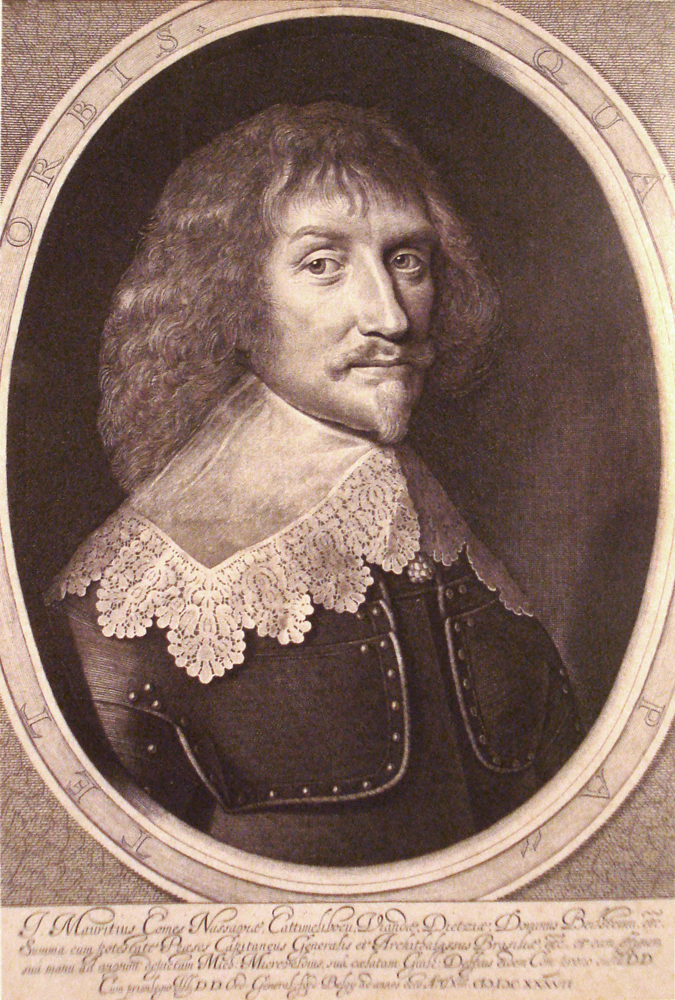 Retrato gravado de Maurício de Nassau